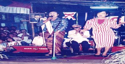 Tari Gambang Semarang Jaman Biyen